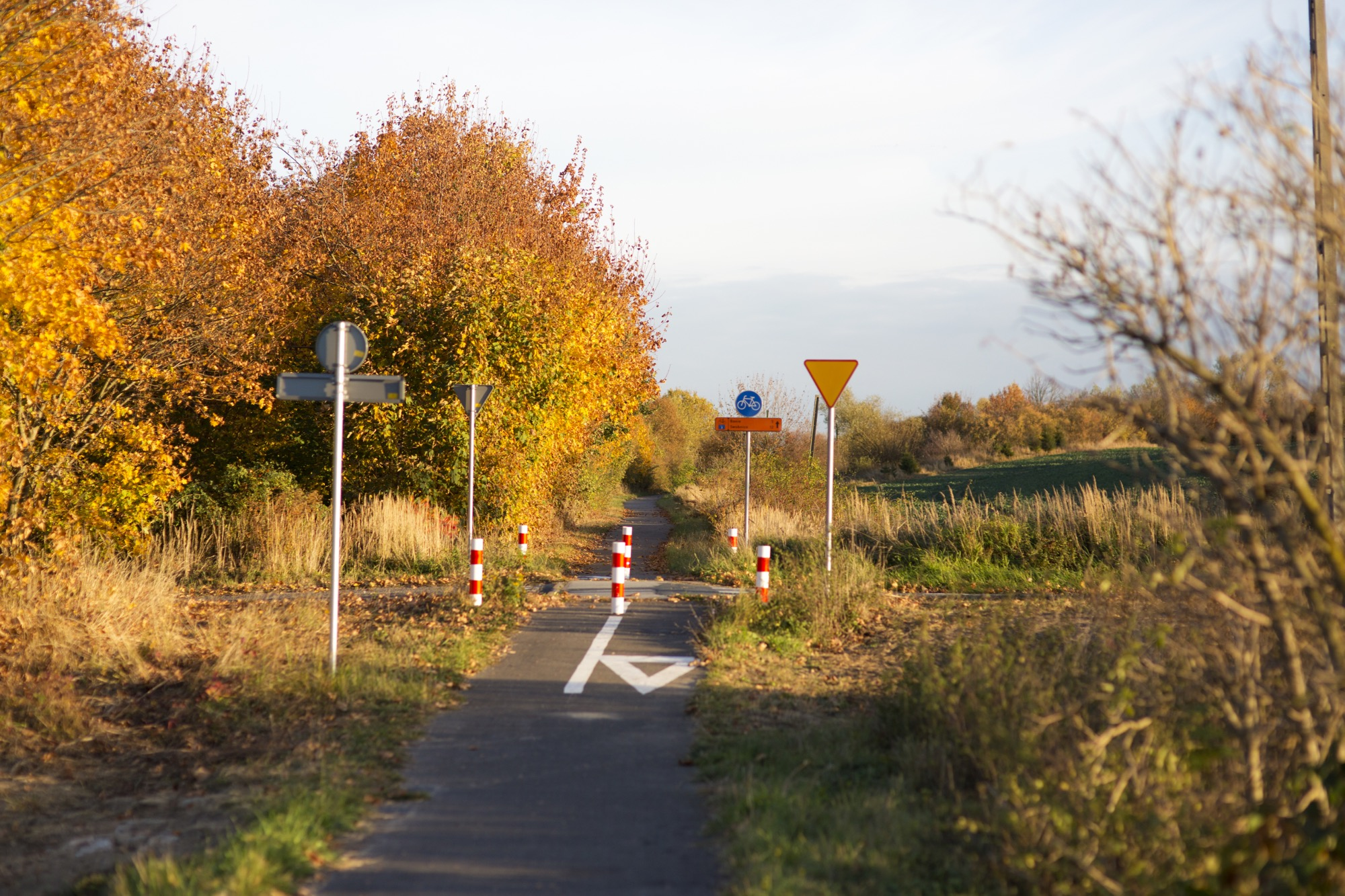 Blue Velo - Odrzański Szlak Rowerowy - odcinek w województwie zachodniopomorskim